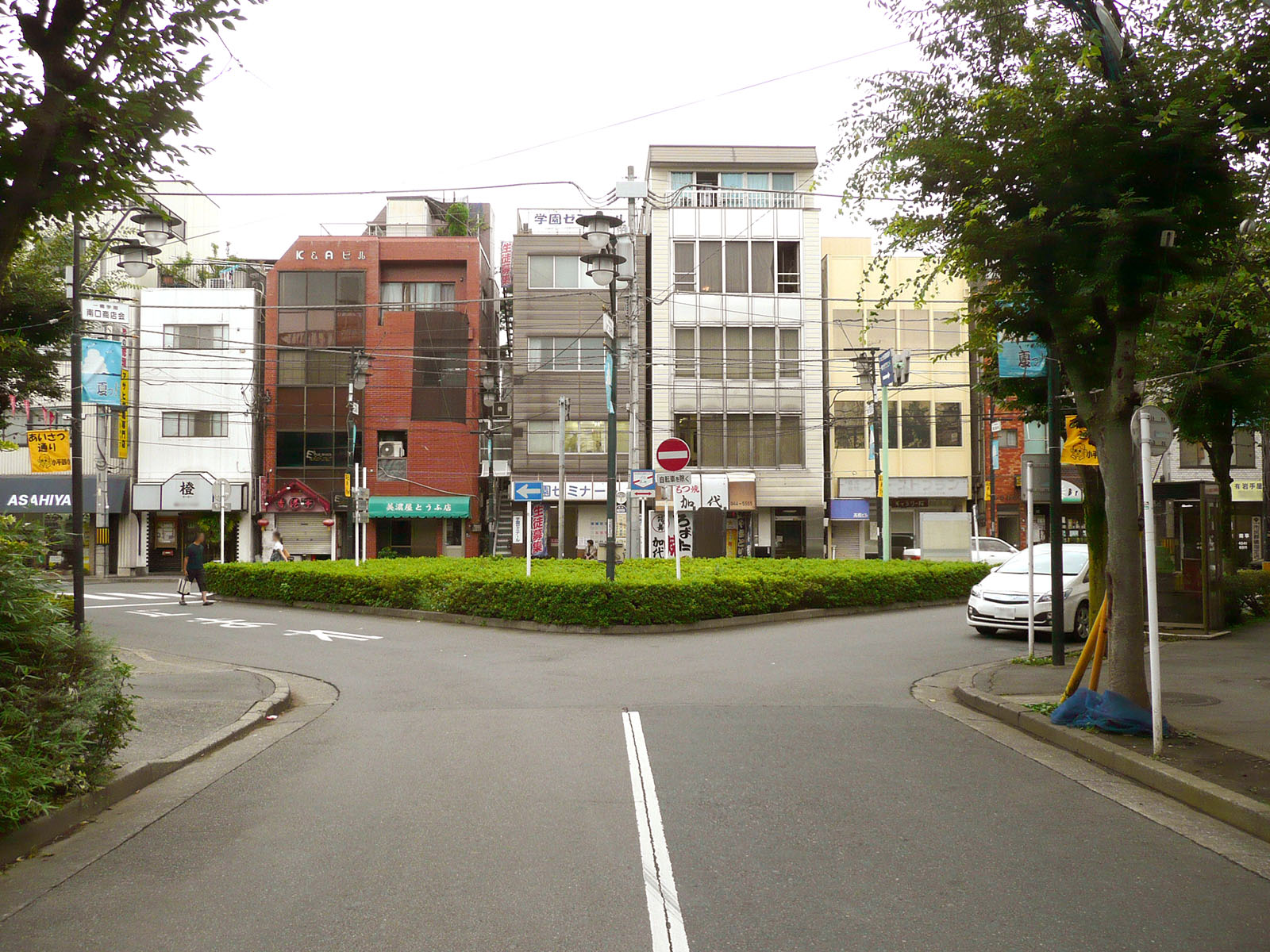 Site of Hitotsubashi-Daigaku Station on Seibu Tamako Line